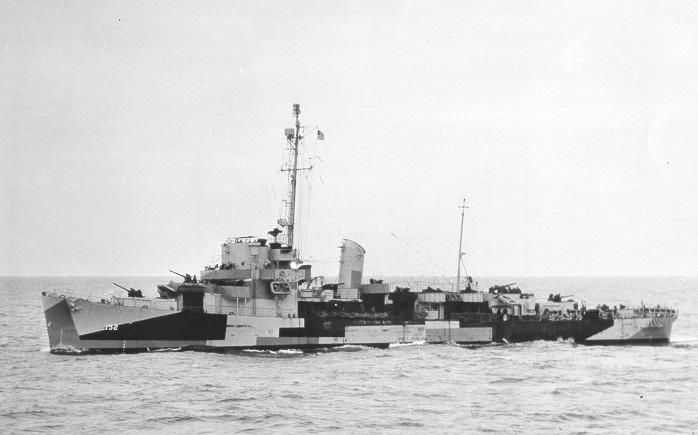 The U.S. Coast Guard-manned U.S. Navy destroyer escort USS Peterson (DE-152) underway, circa 1944.